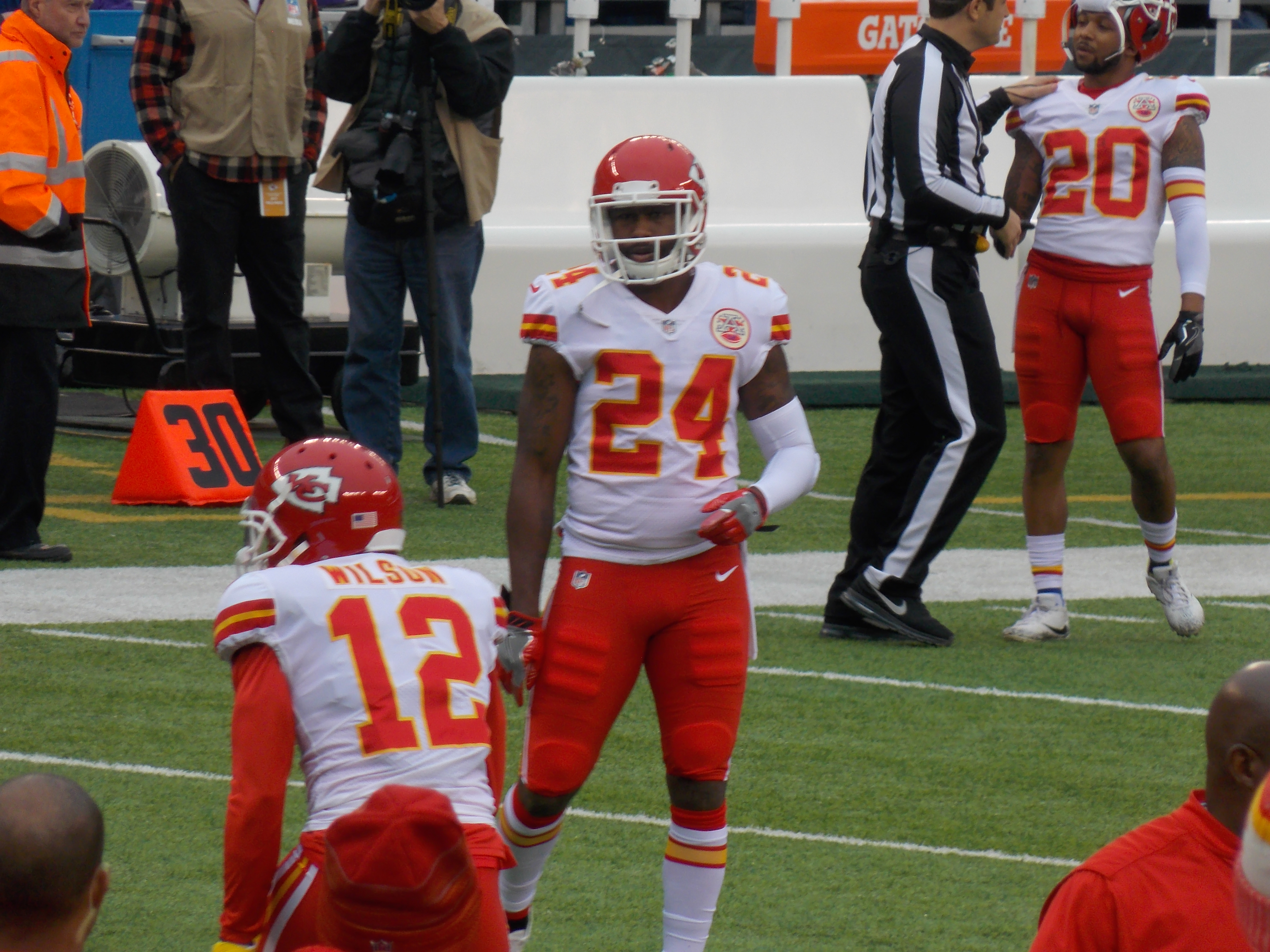 CB Darrelle Revis in his first game with the Kansas City Chiefs at Metlife Stadium against the New York Jets on December 3rd, 2017